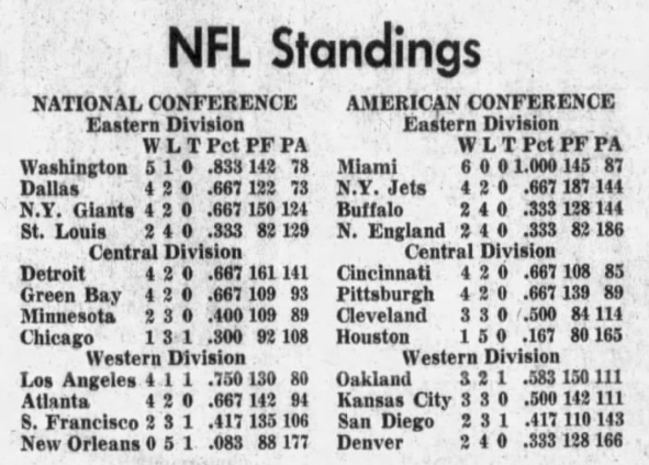 An example of league standings in professional football, for the National Football League (NFL) as printed in the Tampa Bay Times newspaper on October 23, 1972.